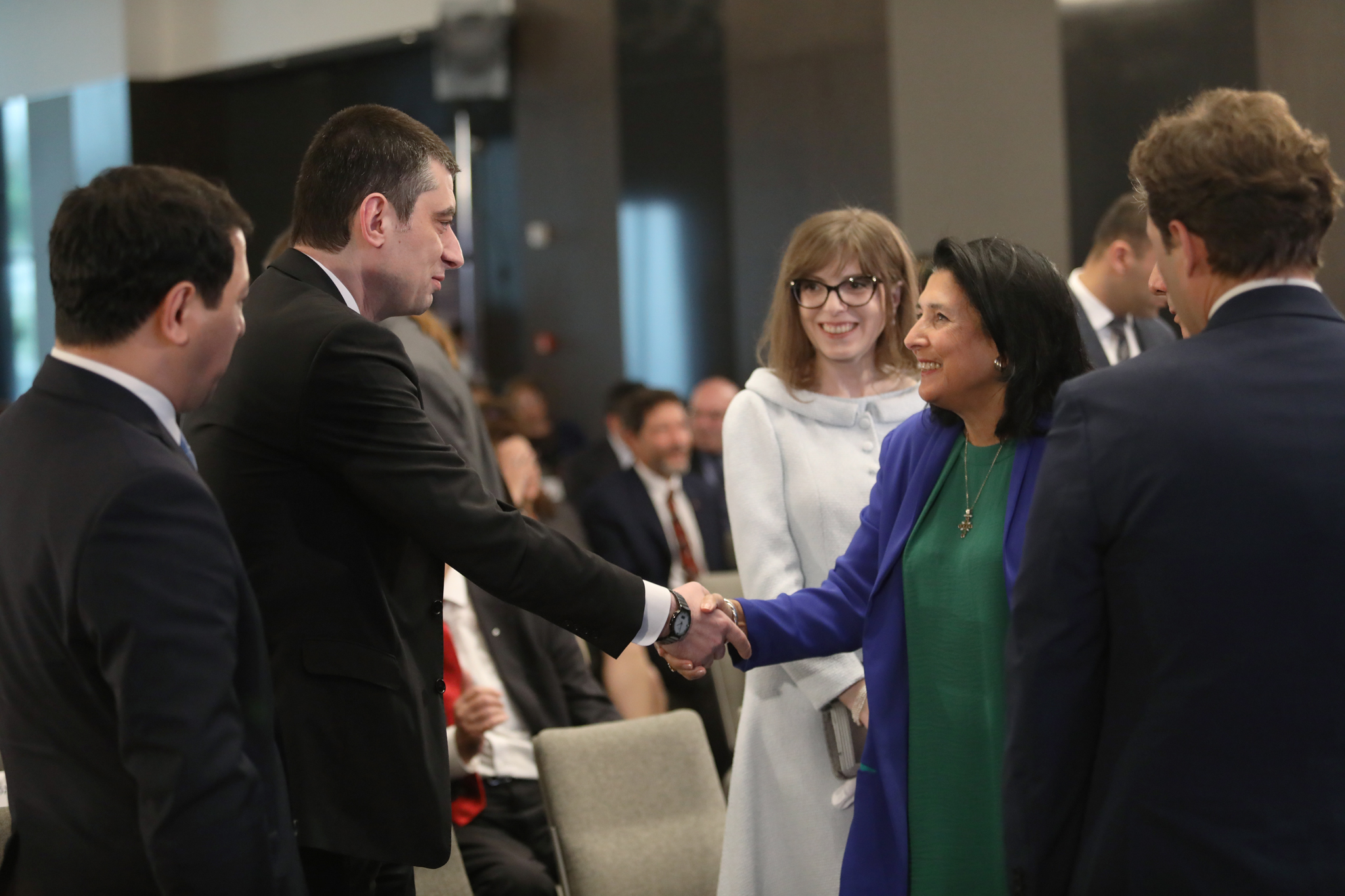 Georgian President Salome Zourabichvili greeting Prime Minister Giorgi Gakharia during the inaugural ceremony of the Kutaisi International University. On the left is Archil Talakvadze, Speaker of the Parliament, and in the center is Ekaterine Khvedelidze, wife of Georgian Dream party Chairman Bidzina Ivanishvili.